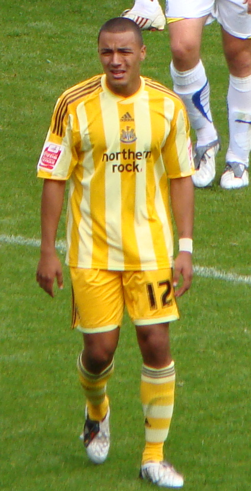 13/09/09 Cardiff V Newcastle, Cardiff City Stadium, Cardiff, Wales